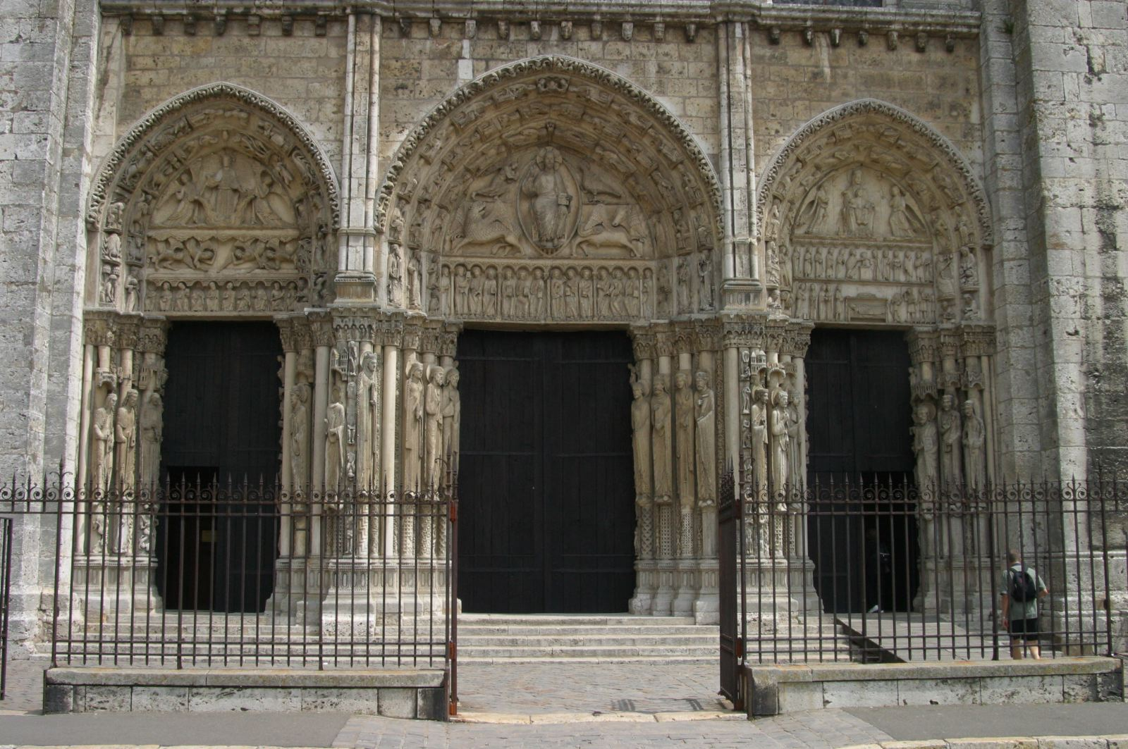 Chartres Cathedral Westfront